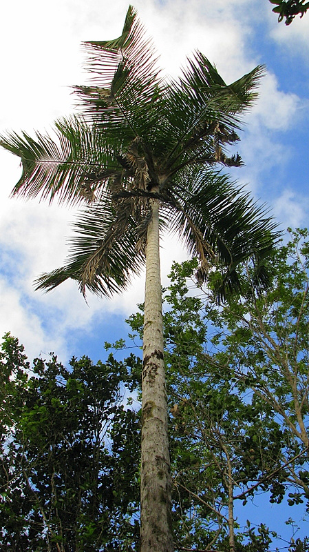 Syagrus botryophora Mart.